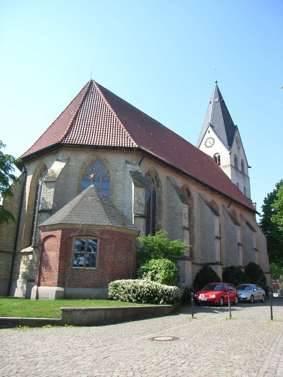 St Lambertus parish church in Hoetmar